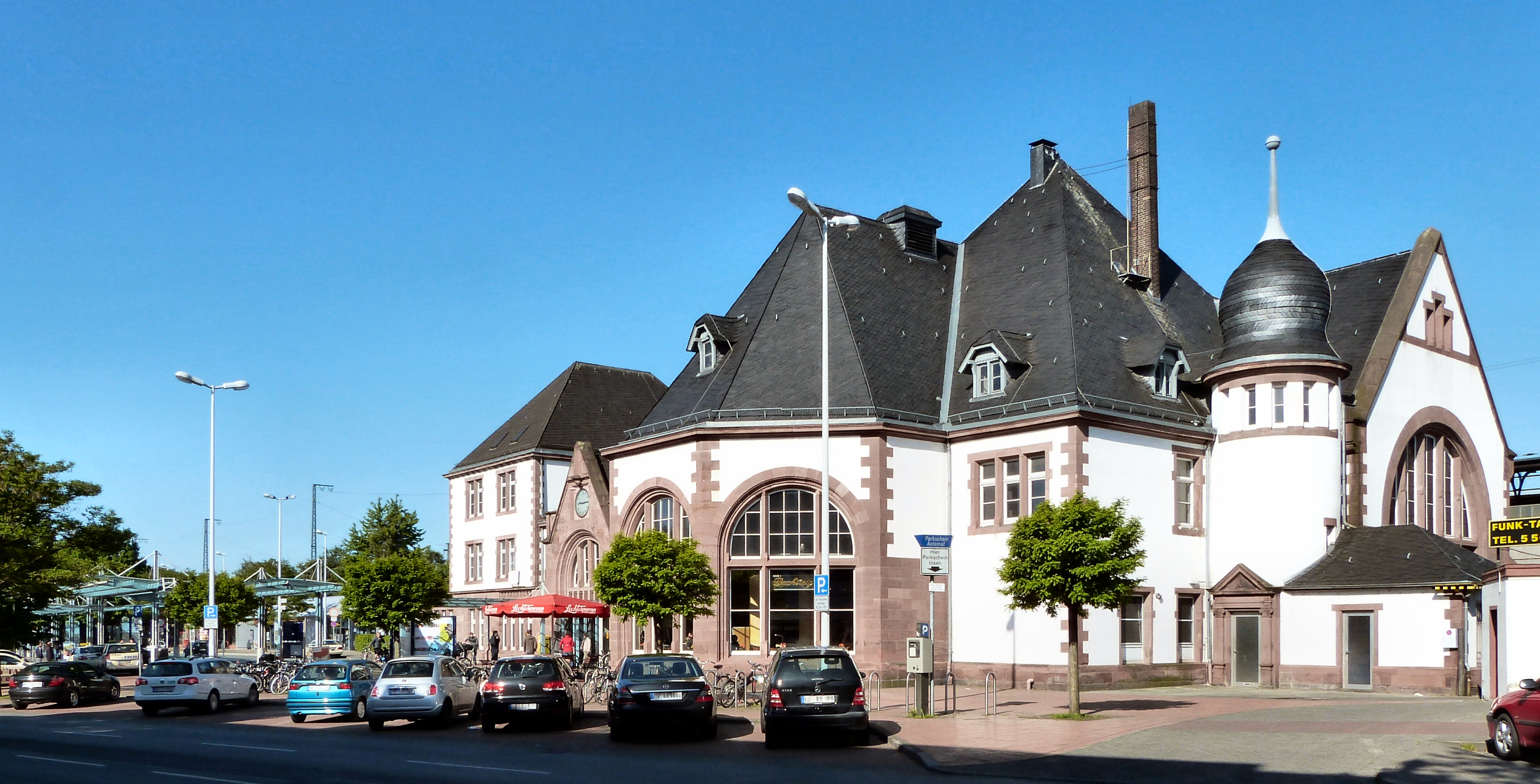 Herford - Reception hall of the Deutsche Bundesbahn-Station (Railway), in the background left you can see the bus station